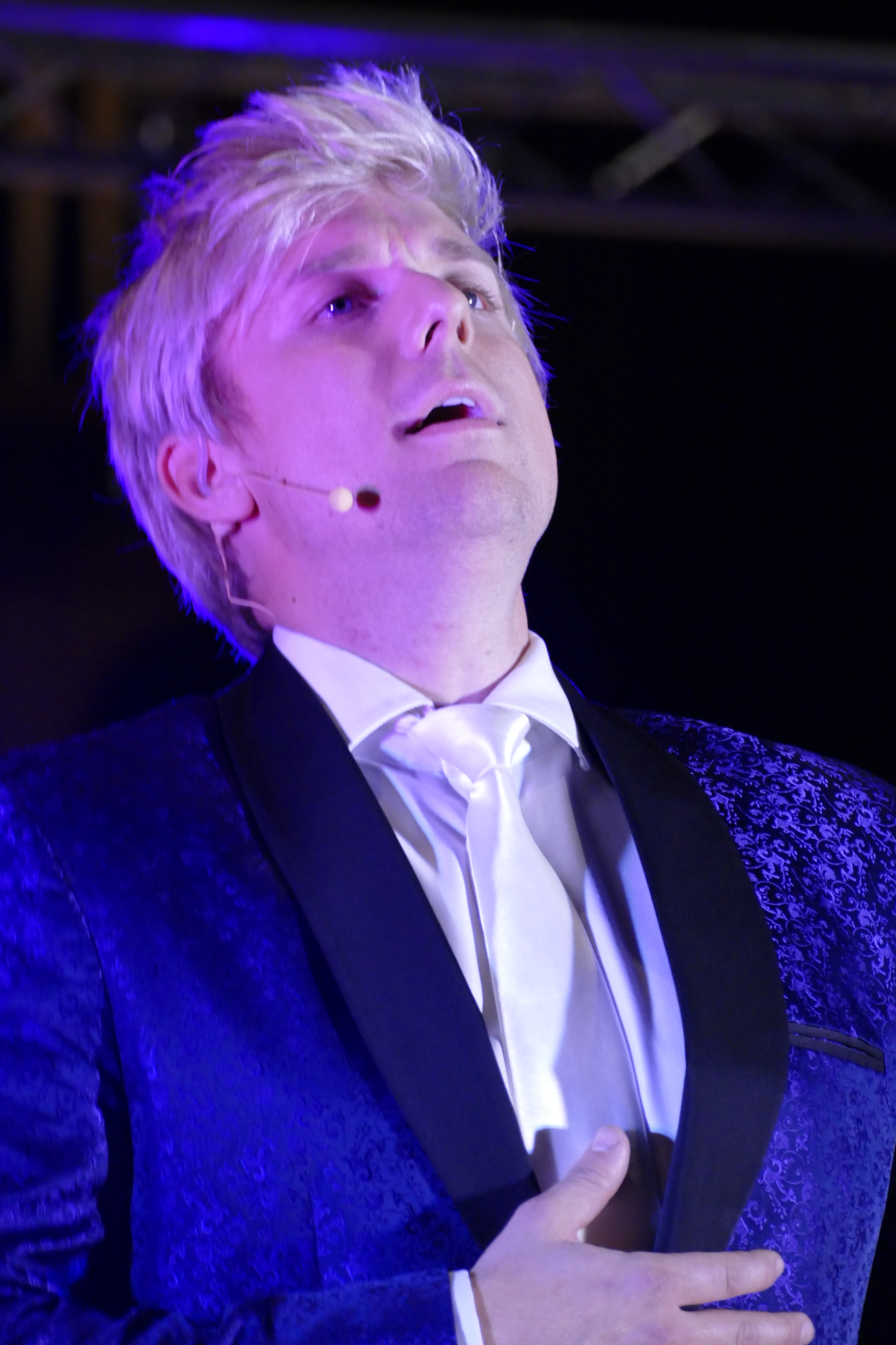 Jonathan Ansell at Norwich Cathedral December 2017